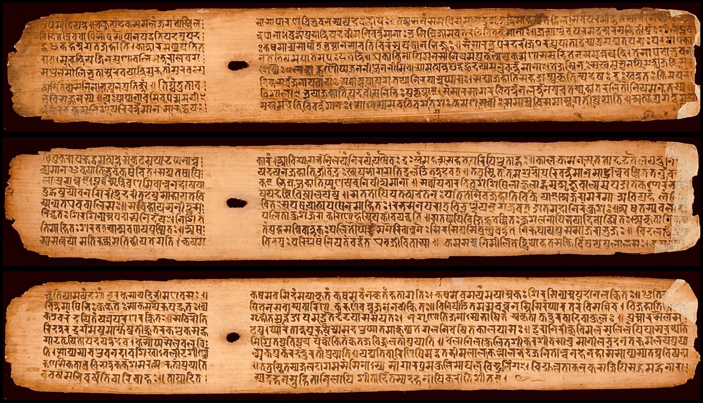 Shisyalekha (IAST: Śiṣyalekha) is a 5th-century Sanskrit literary work of the Buddhist grammarian and poet Candragomin (guru of Ratnakirti). It consists of an ornate kavya (poem) in the epistolary genre. The poem is about a monk who has broken his celibacy vow through a love affair with a princess. While the poem is fine in itself, this text is significant for using a well developed Devanagari script in 1084 CE. The text was copied within decades, and several versions of these Devanagari manuscripts have survived (one is now at Tokyo University Library, another at St Petersburg Saltykov-Schedrin Library. This version of the palm leaf manuscript was purchased by Daniel Wright in May 1875. It is now preserved at the Cambridge University Library ( MS Add.1161 ). The manuscript shows signs of aging, peeling, insect damage and edge fraying. The holes above in the leaves is the place to pass a string through to keep the talapatra pages in order, and then tie them together into a book, just like other palm leaf manuscripts. Each leaf has coloring daub marks, which identifies the dandas (verse's end) and puspikas. The manuscripts also has a few places where Nepalaksara script title and other archival information is marked, which were added much later. Language: Sanskrit Script: Devanagari The photo above is of a 2D artwork created in 1084 CE, itself a copy from a text that was itself authored more than 1,500 years ago. The manuscript that was purchased before 1875 CE in Nepal by Daniel Wright. The artwork and this 2D photograph therefore fall under Wikimedia Commons PD-Art licensing guidelines. Any rights I have as a photographer is herewith donated to wikimedia commons under CC 4.0 license.